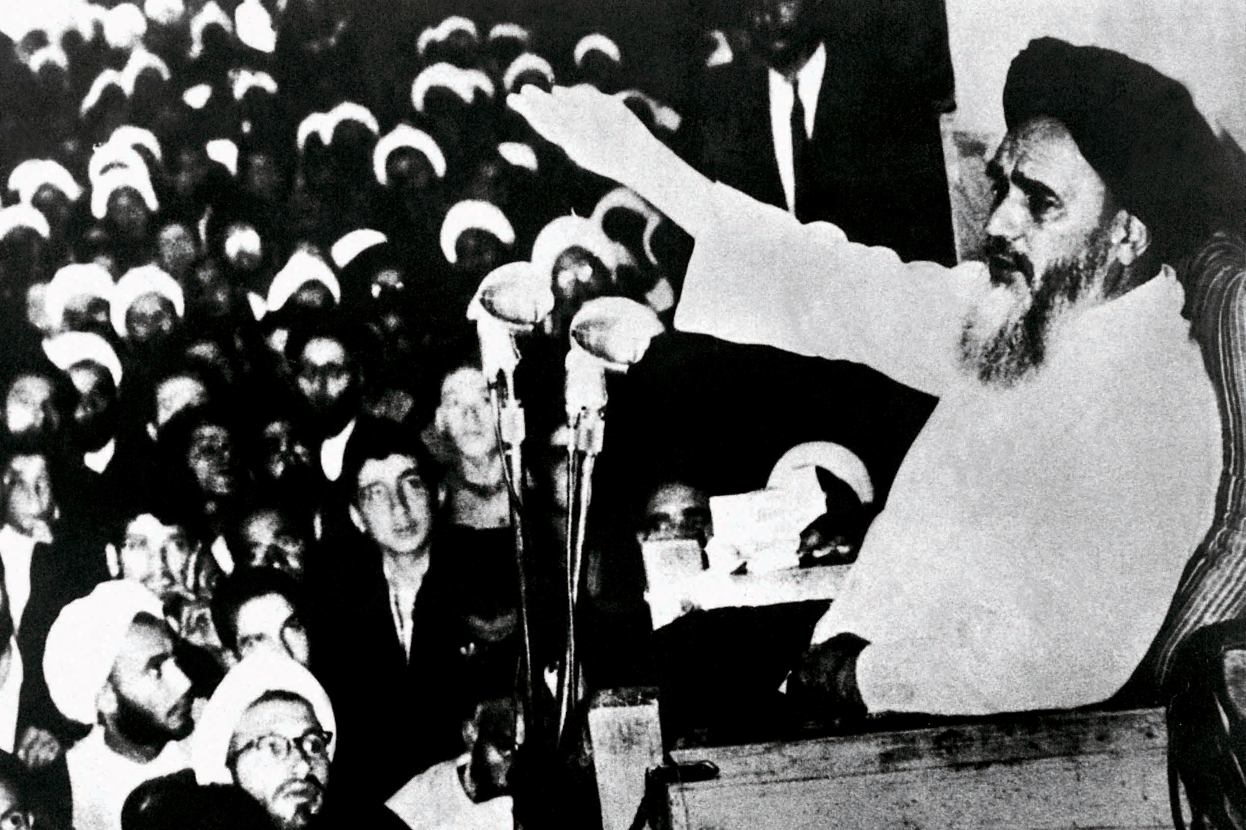 June 3, 1963 speech by Rohullah Khomeini - Feyziyeh School, Qom